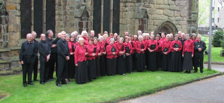 Group photo taken before the concert in Tideswell Church.